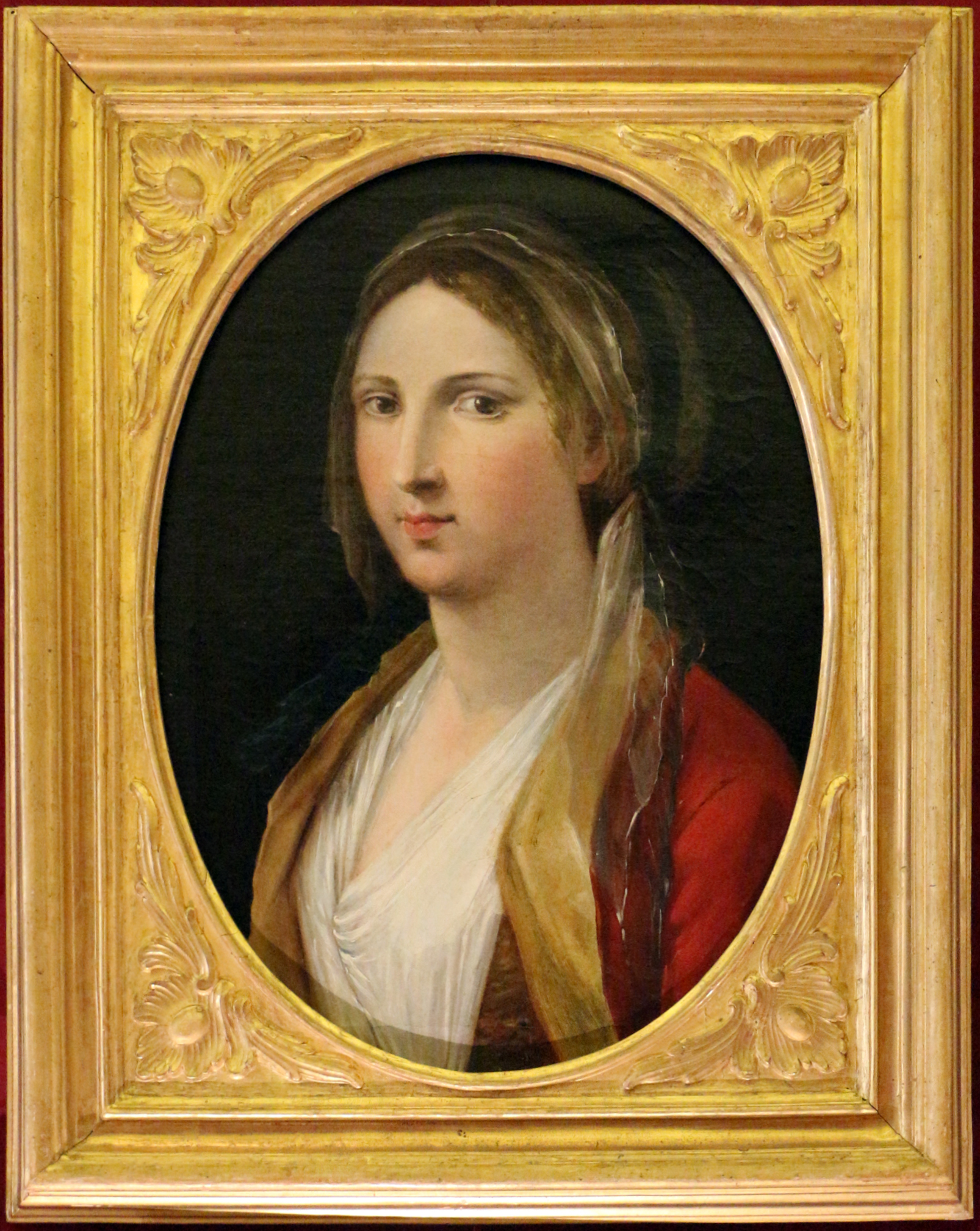 Palazzo Buonaccorsi (Macerata) - Old Masters